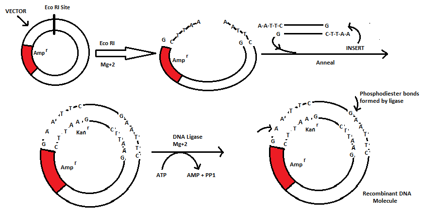 recombinant DNA Molecule